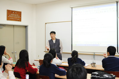 class